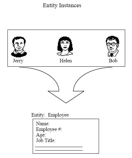 Figure A3 2 Synthesizing an Entity